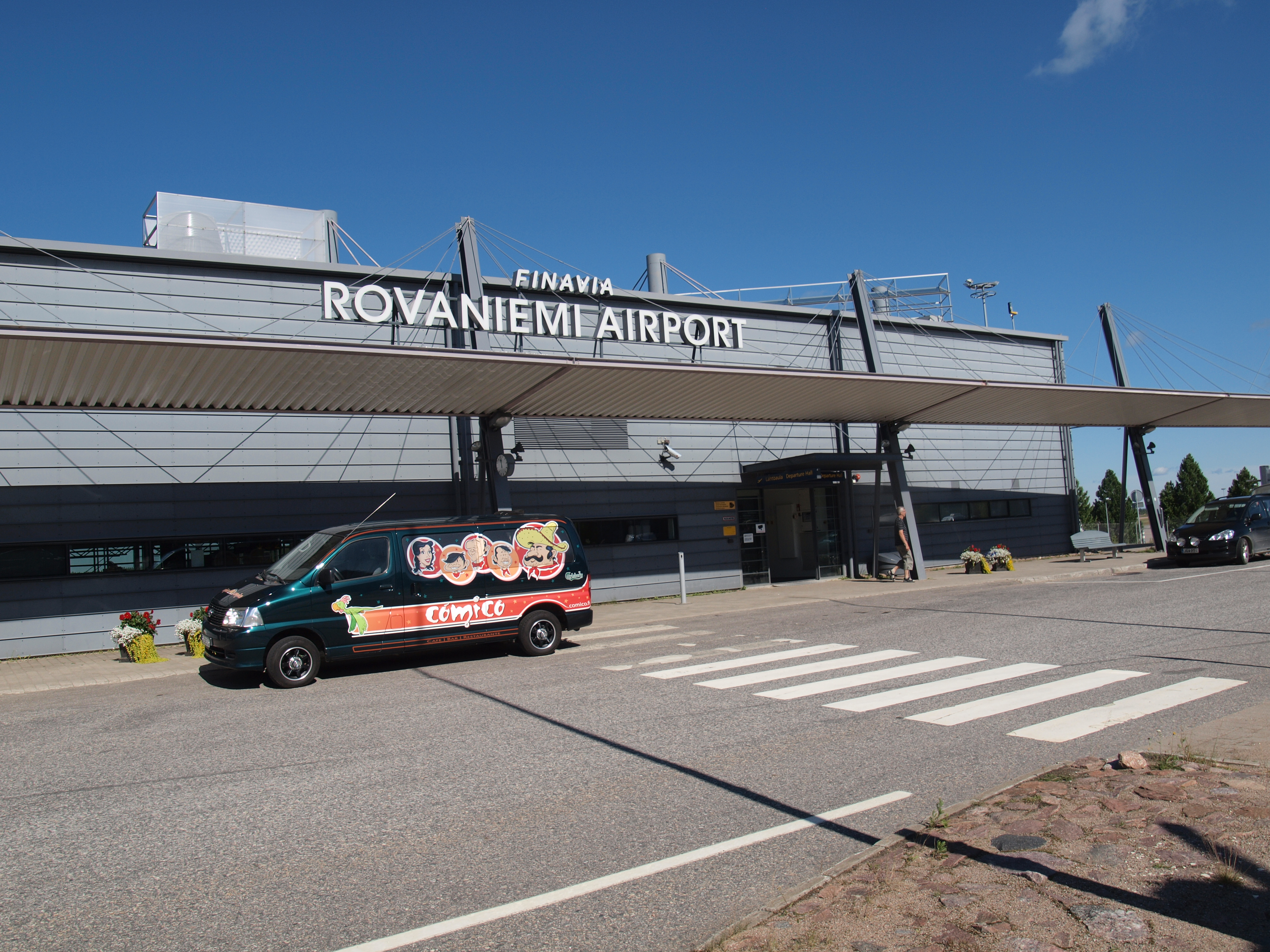 The exterior of Rovaniemi Airport in Rovaniemi, southern Lapland, Finland.